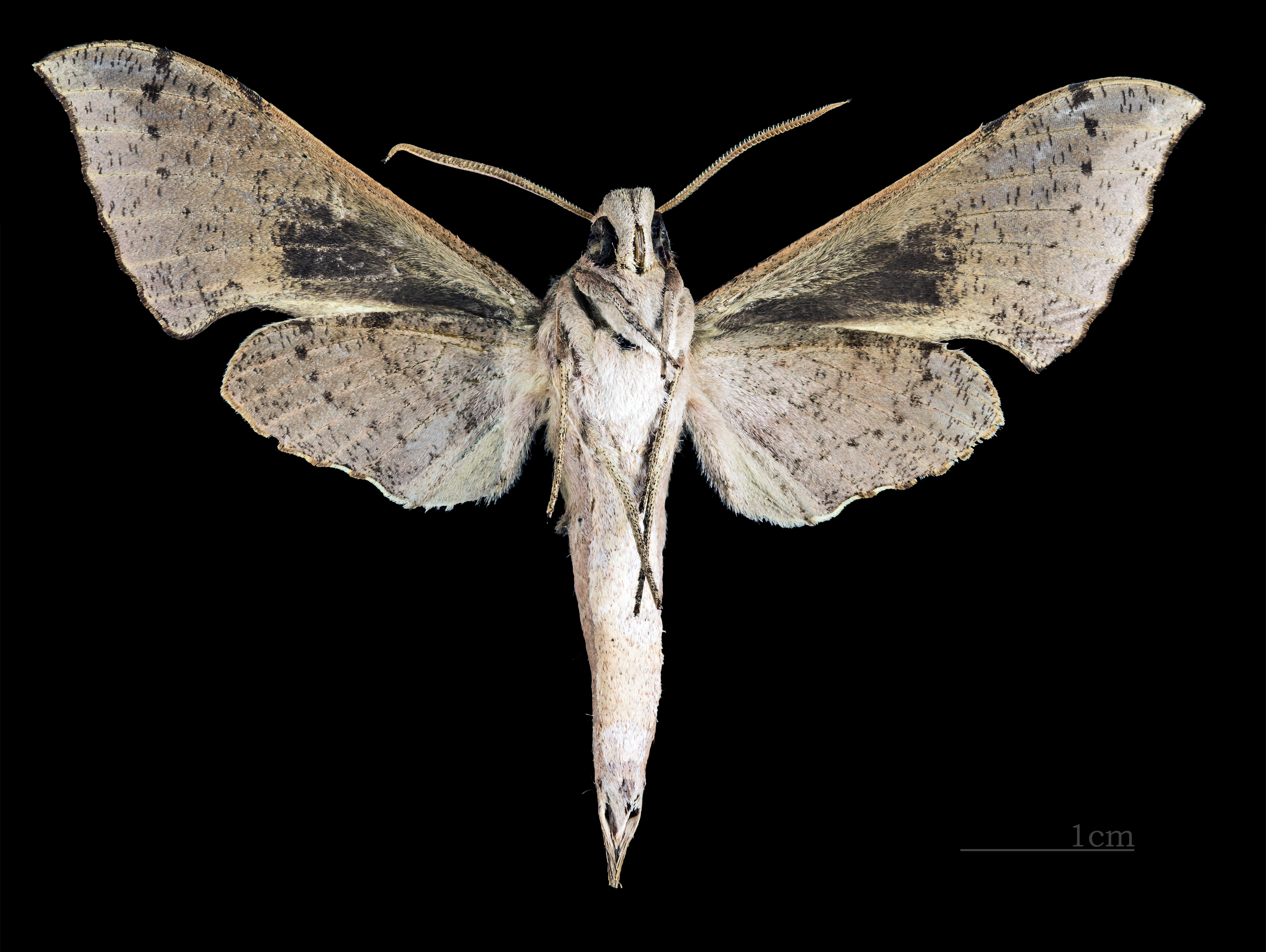 Xylophanes germen germen - △ Ventral side